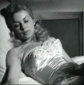 Screenshot of Janet Leigh from the trailer for the film Touch of Evil